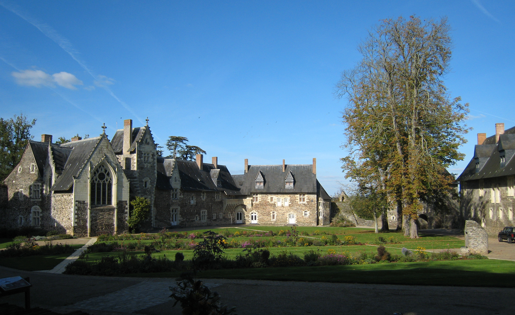 Courtyard of the castle Le Plessis-Macé, located in the village of Le Plessis-Macé near the town of Angers in the department of Maine-et-Loire, France.